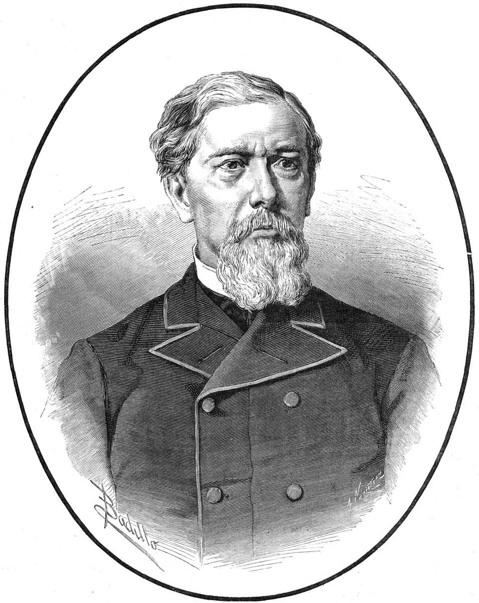 Antonio Lopez y Lopez, 1st Marquis of Comillas. (1817-1883). Shipowner and founder of large Spanish financial and comercial firms.